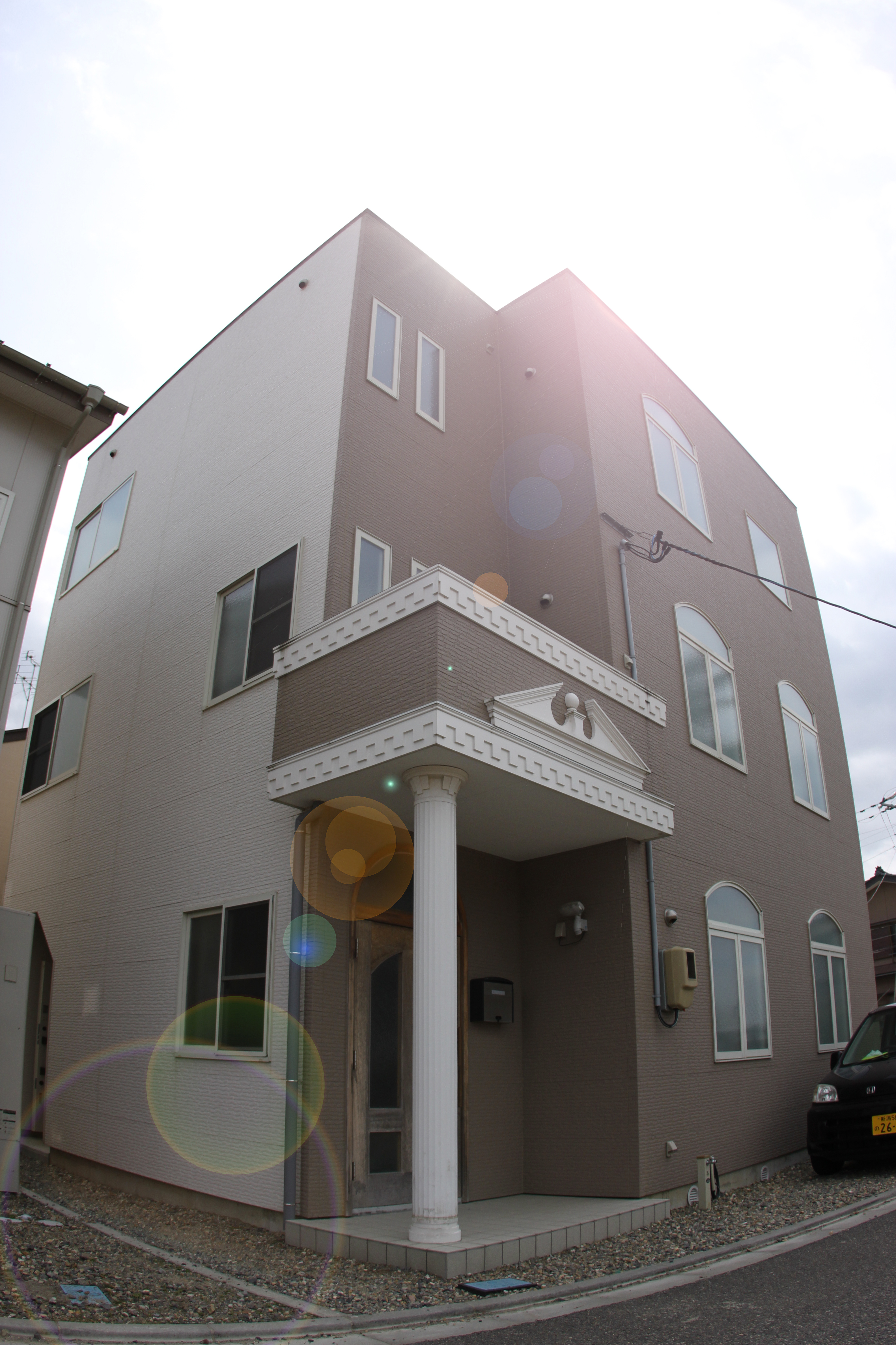 Side view of Annur mosque in Niigata